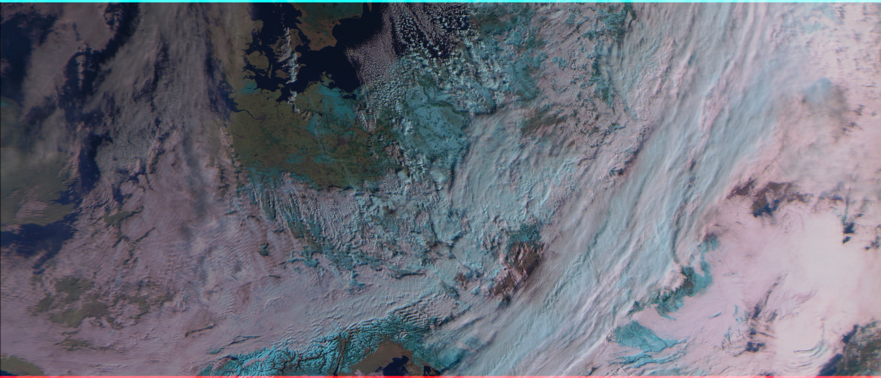 MSU-MR image from Meteor-M2 in RGB123, received in Poland near Jelenia Góra.